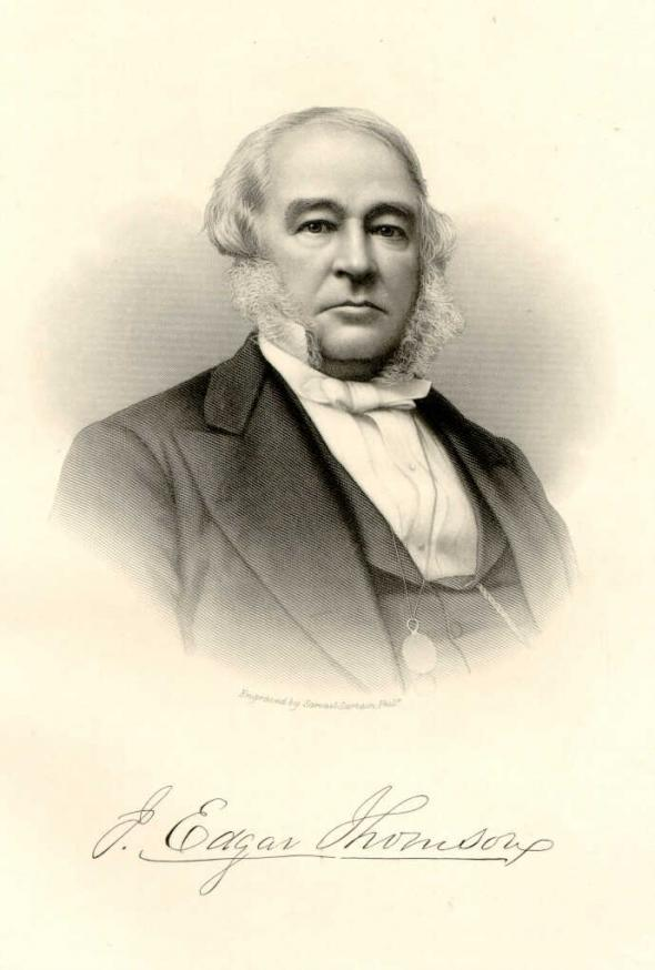 Published 1884 in Scharf, Thomas J., and Thompson Westcott, History of Philadelphia. 1609-1884. Philadelphia. L.H. Everts and Co., 1884.